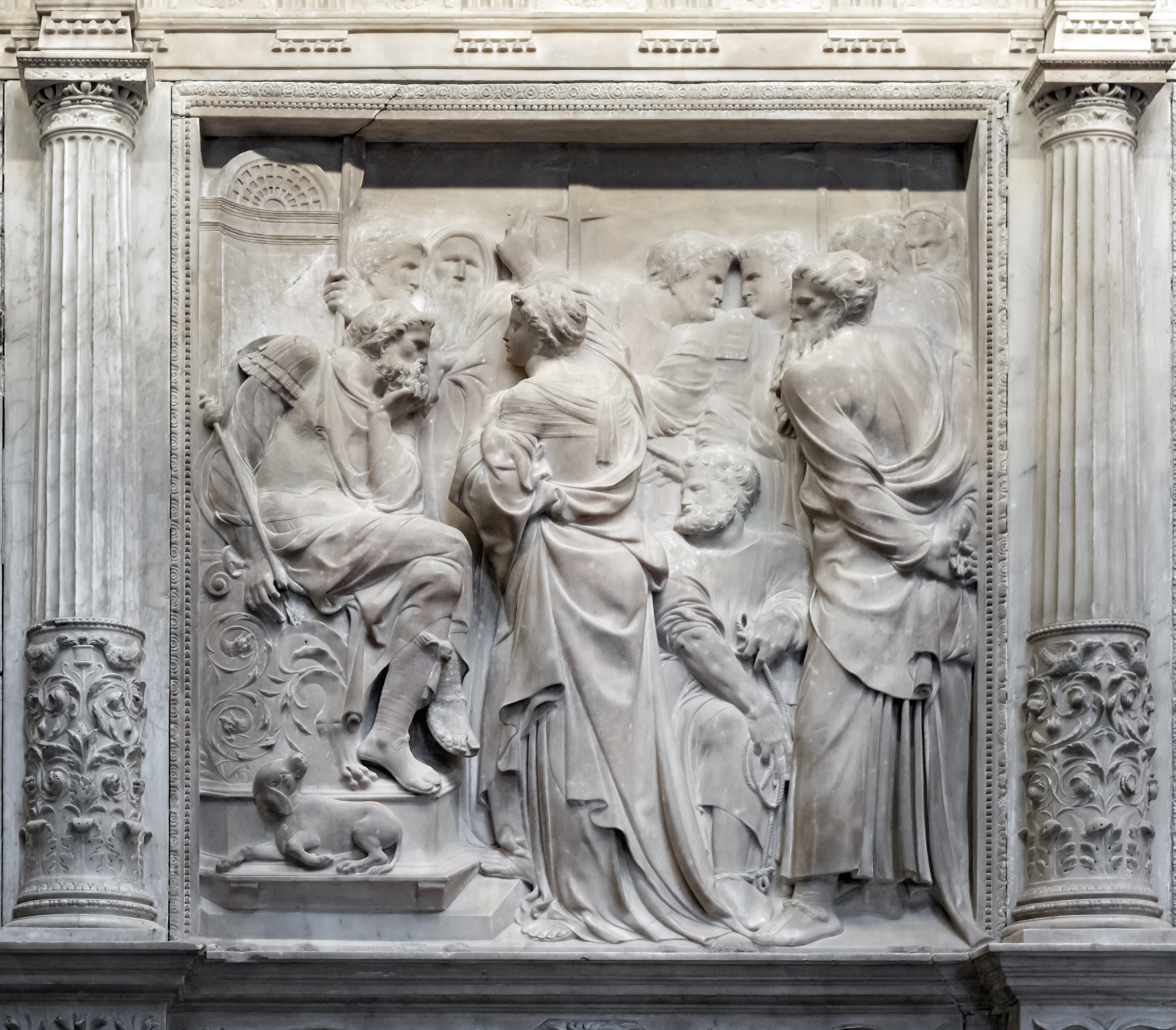 Depicted person: Eulalia of Barcelona – Spanish saint Depicted person: Datianus